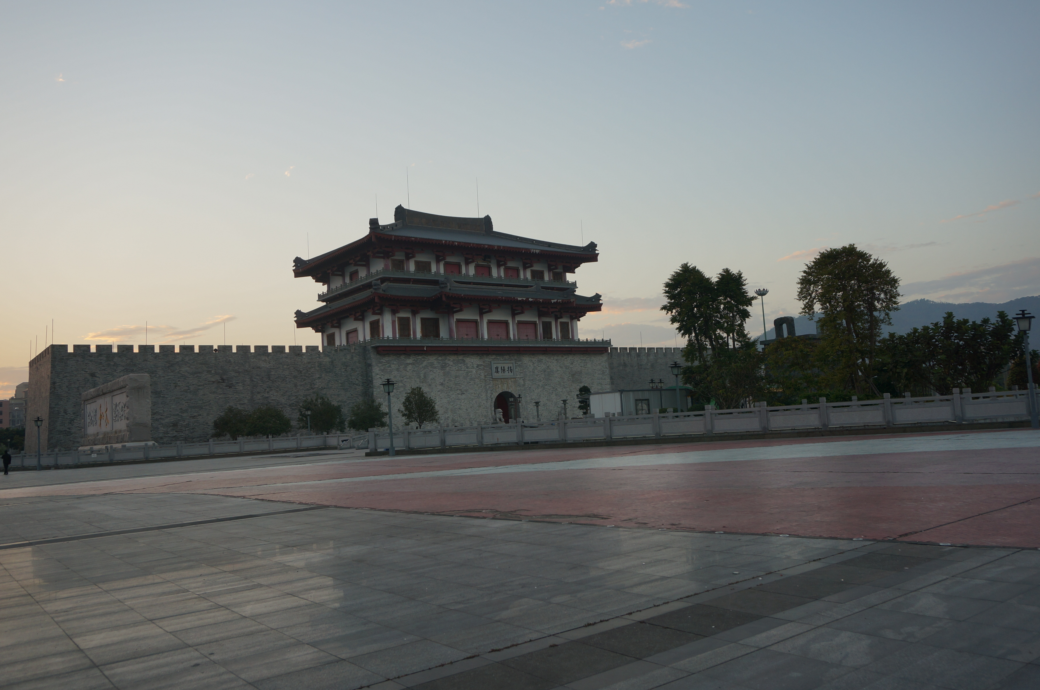 This photo shows the panorama of a tourist attraction and also a landmark, Jieyang Tower, which is located in Jieyang city, Guangdong province, China.